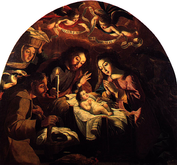 Nativity